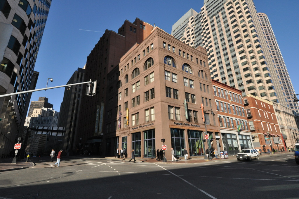 Gridley Street Historic District, Boston, Massachusetts. Shows all buildings except the Richardson Block.